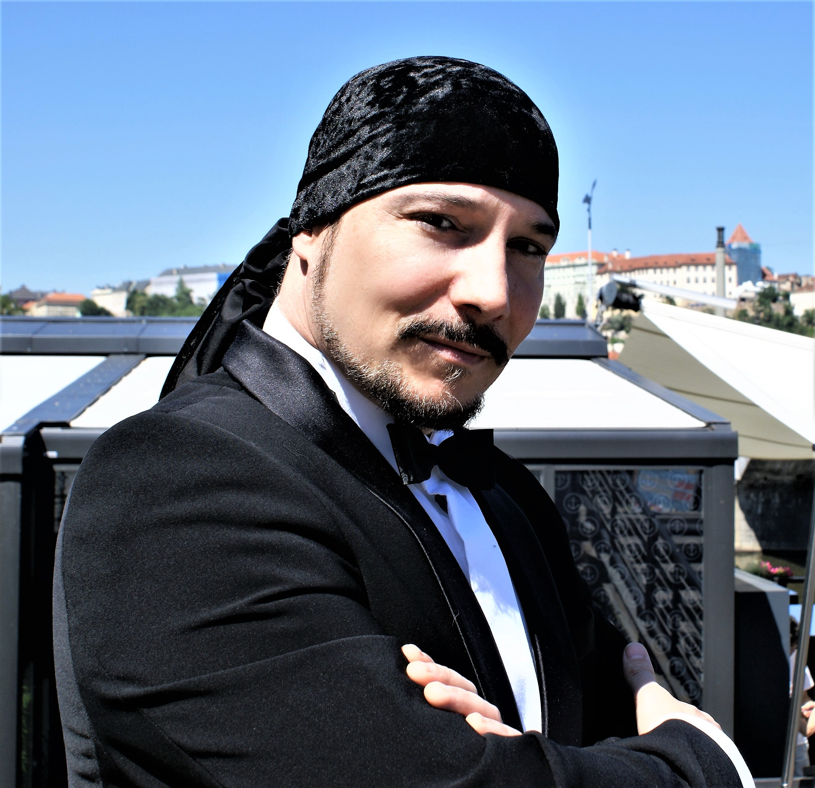 Bohuš Matuš, singer